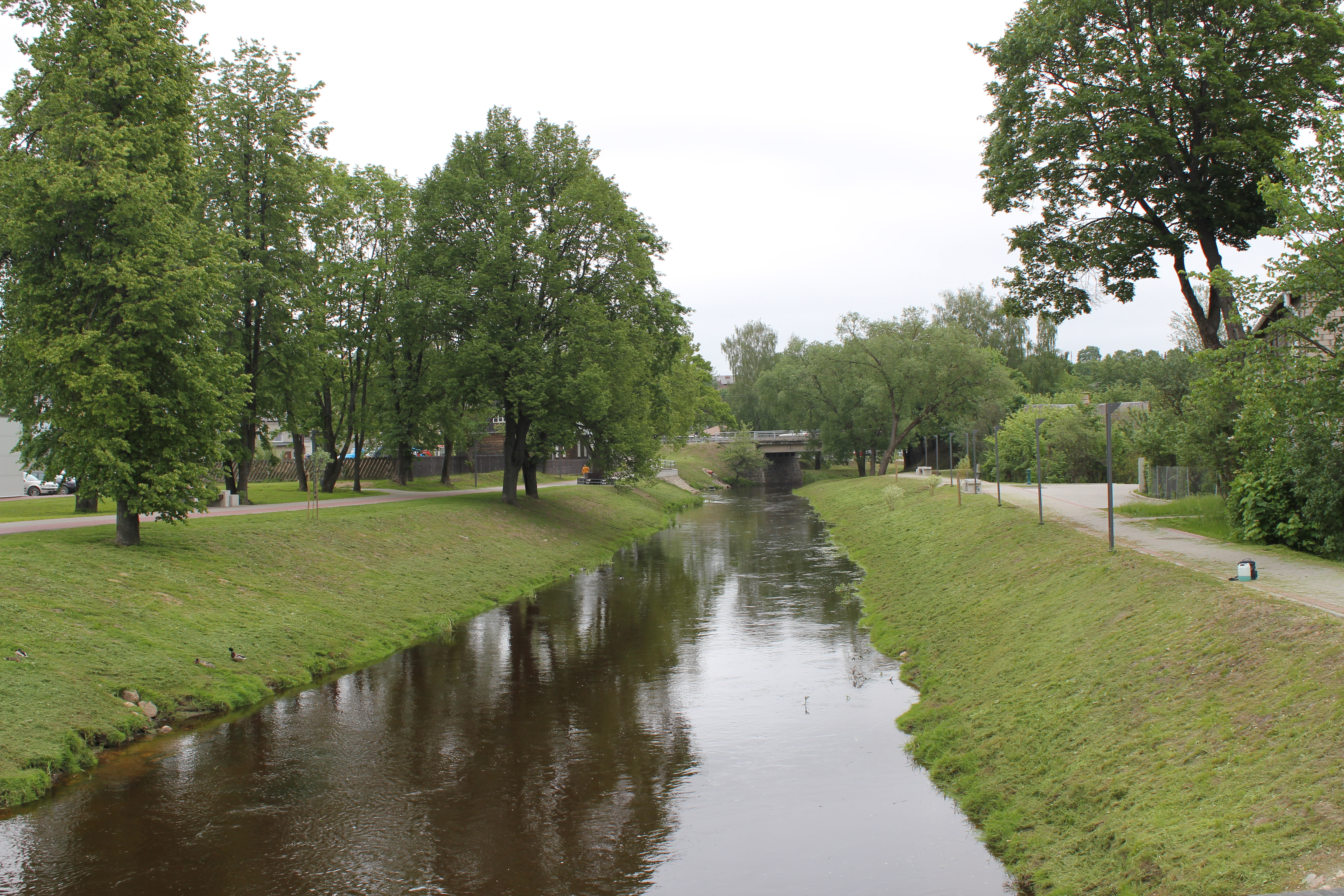 river of Rezekne